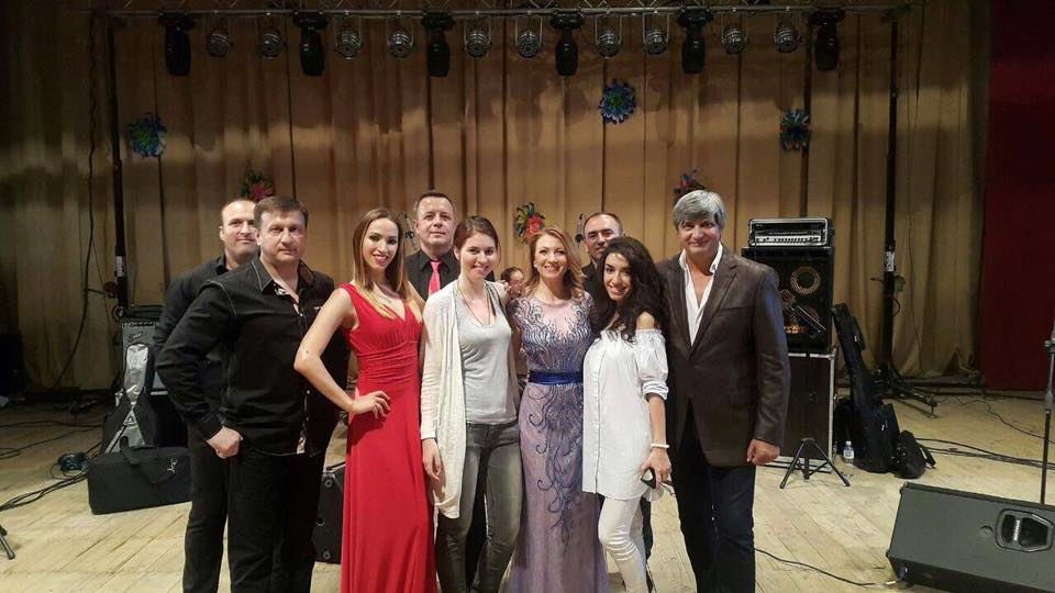 Alex Litt with colleagues